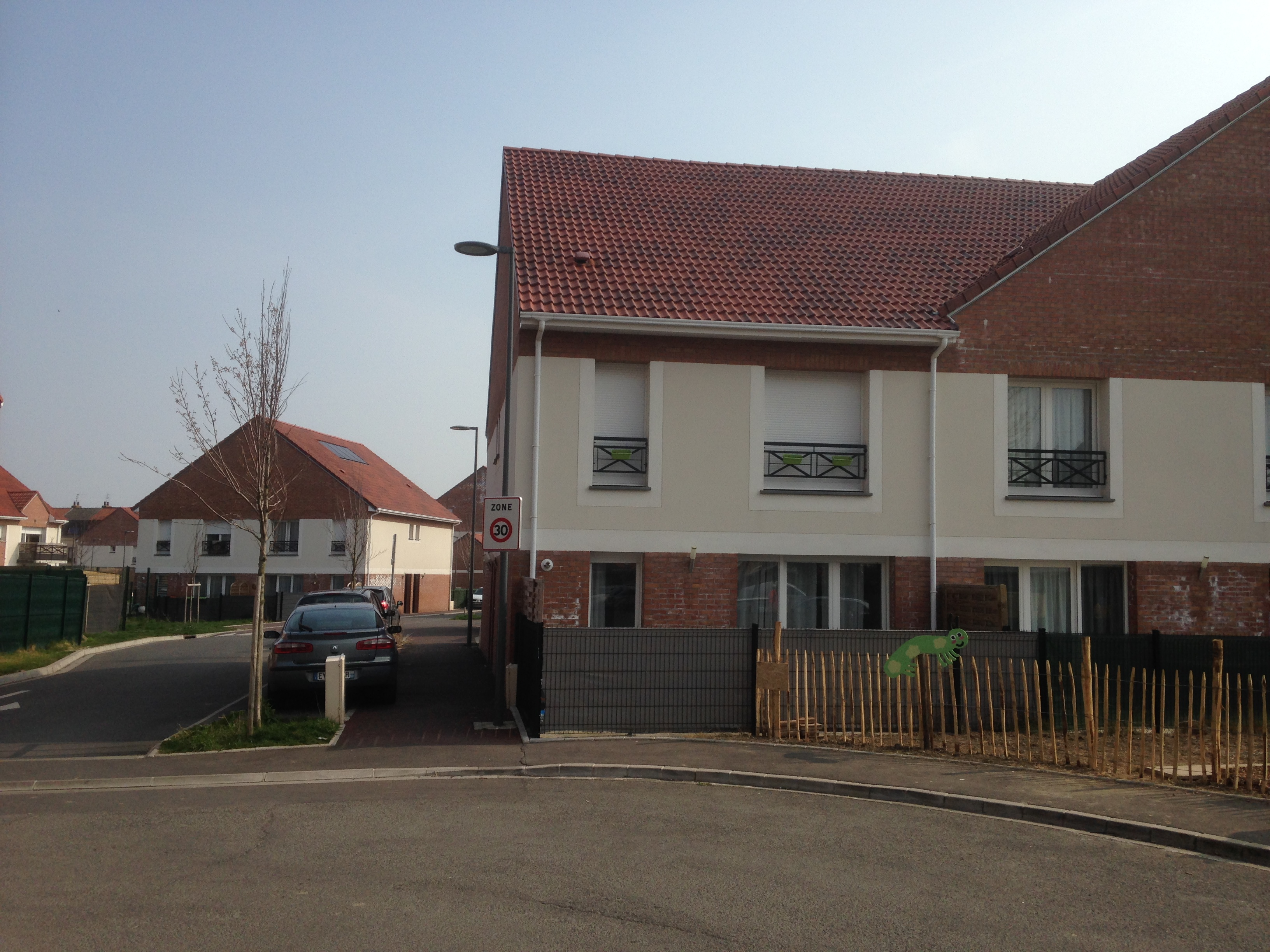 Ex friche Vandendriessche